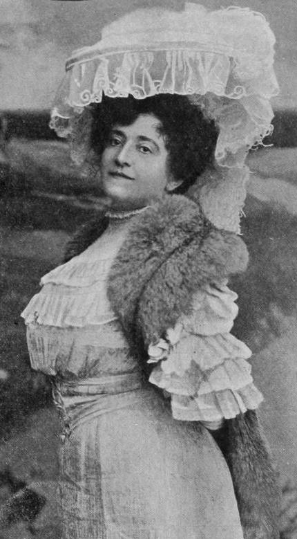 A middle-aged white woman wearing a large white hat, a fur stole, and a ruffly white shirtwaist.